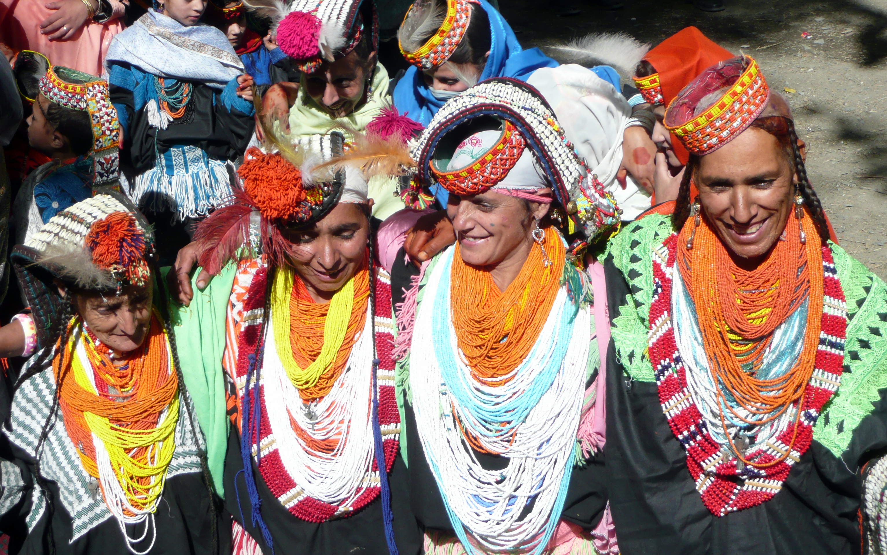 Dancing Kalasha women at the harvest festival